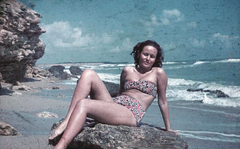 Black Sea, young woman on the beach